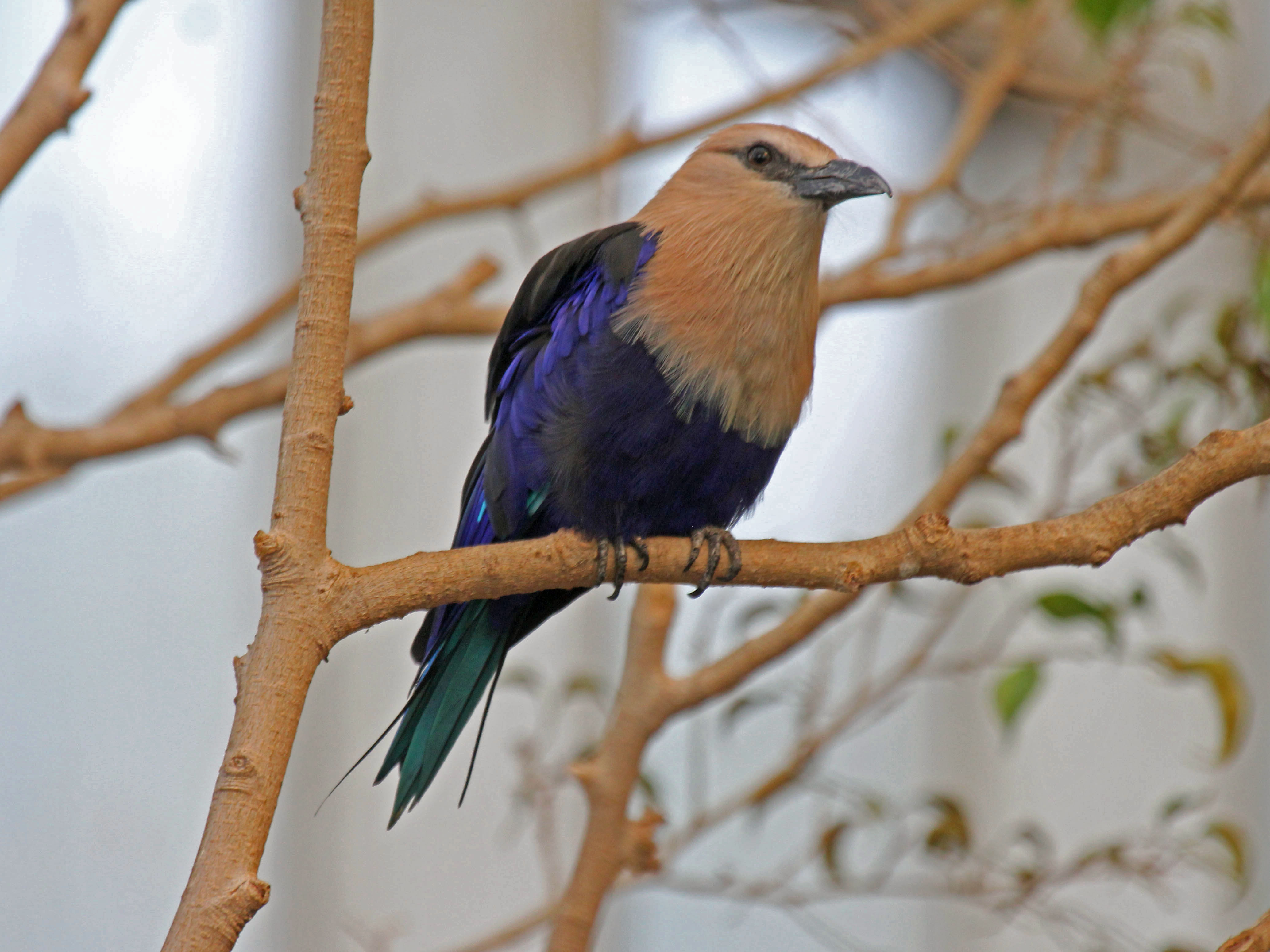 Blue-bellied Roller (Coracias cyanogaster) - National Aviary in Pittsburgh, Pennsylvania.